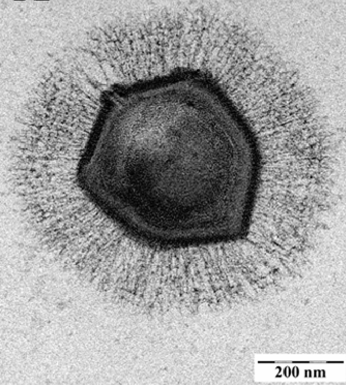 Mimivirus particle, electron microscopy